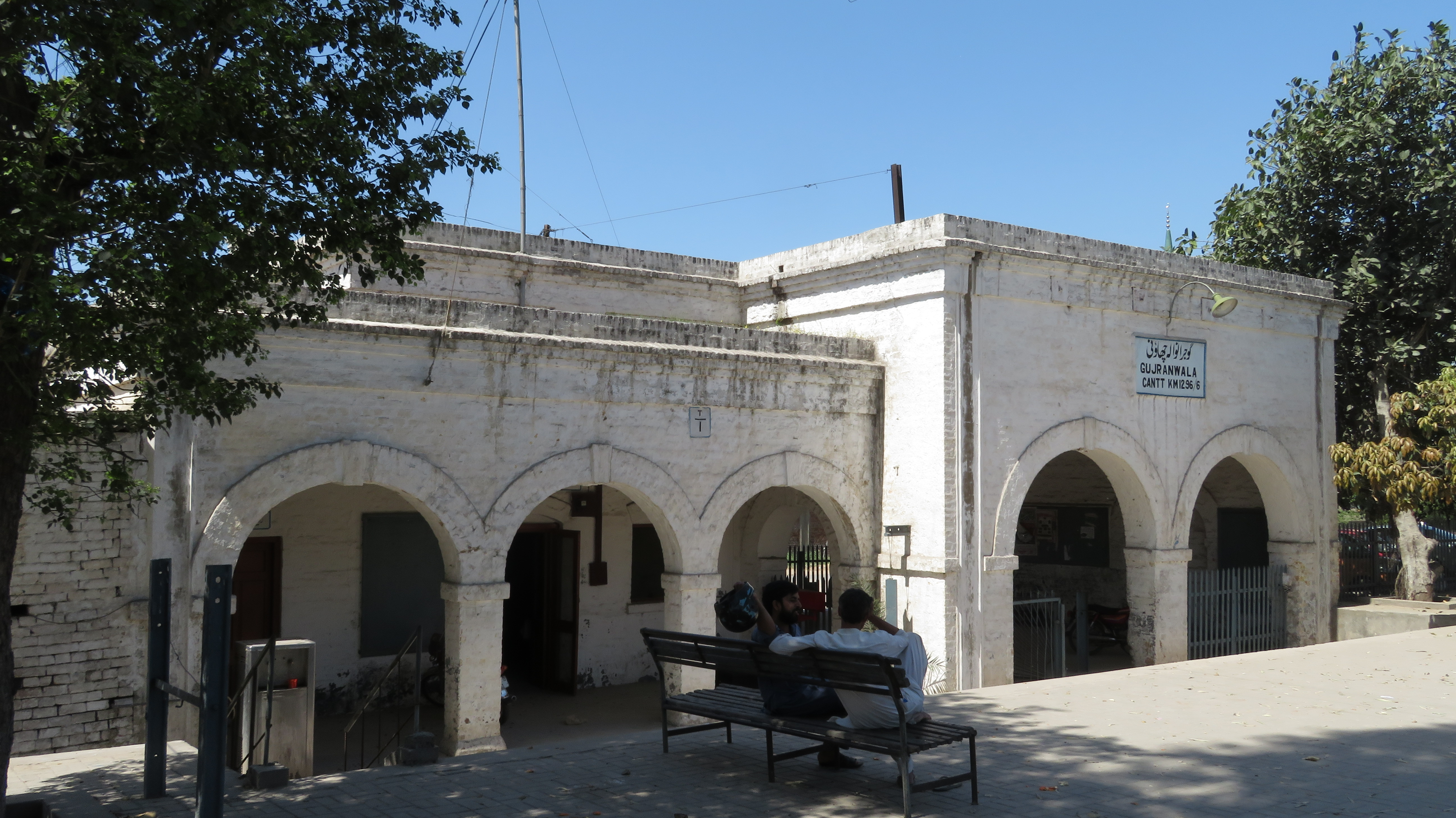 Railway Station "Gujranwala Canttonment", Gujranwala, Pakistan